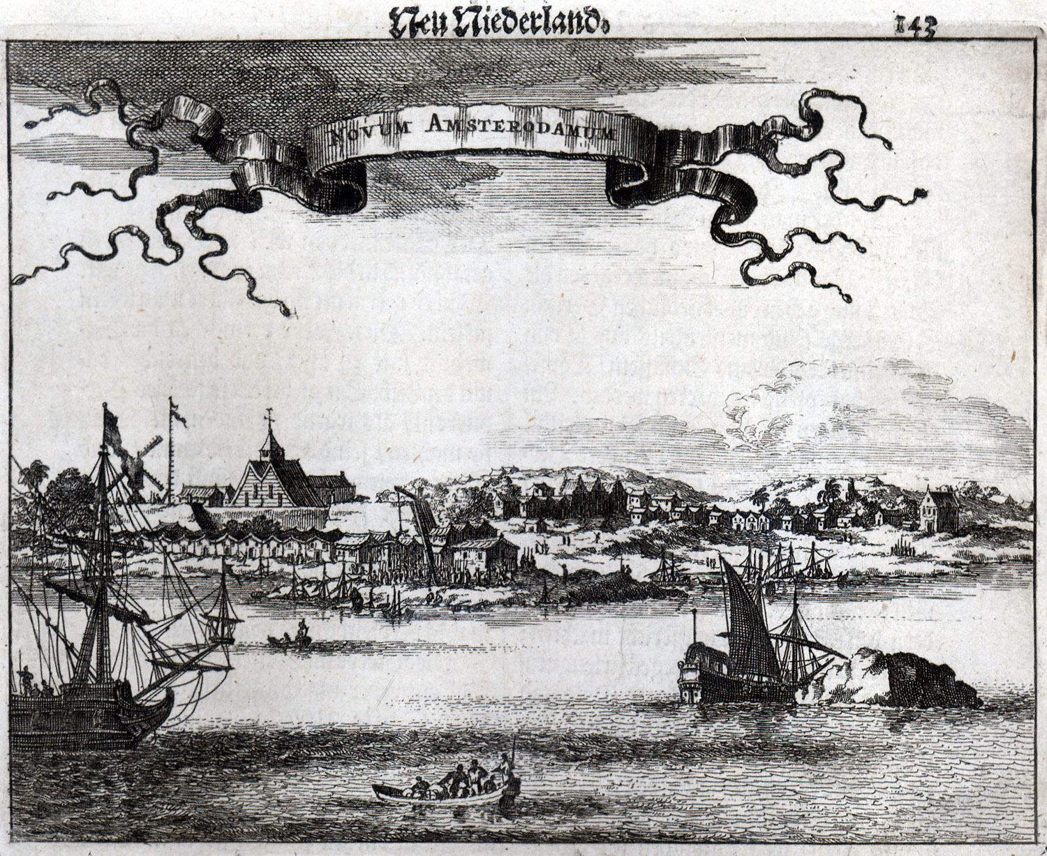 New amsterdam as it looked in 1651